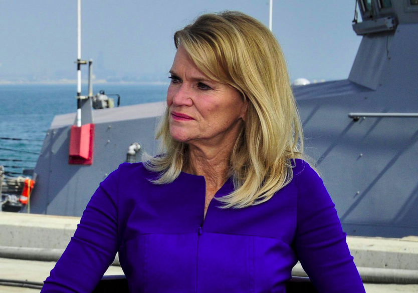 Photo of Martha Raddatz sitting down with John W. Miller, commander of U.S. Naval Forces Central Command, U.S. 5th Fleet, Combined Maritime Forces, sits down for an interview.